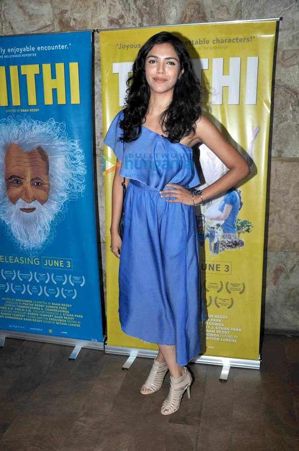 Shriya Pilgaonkar at the special screening of the film Thithi